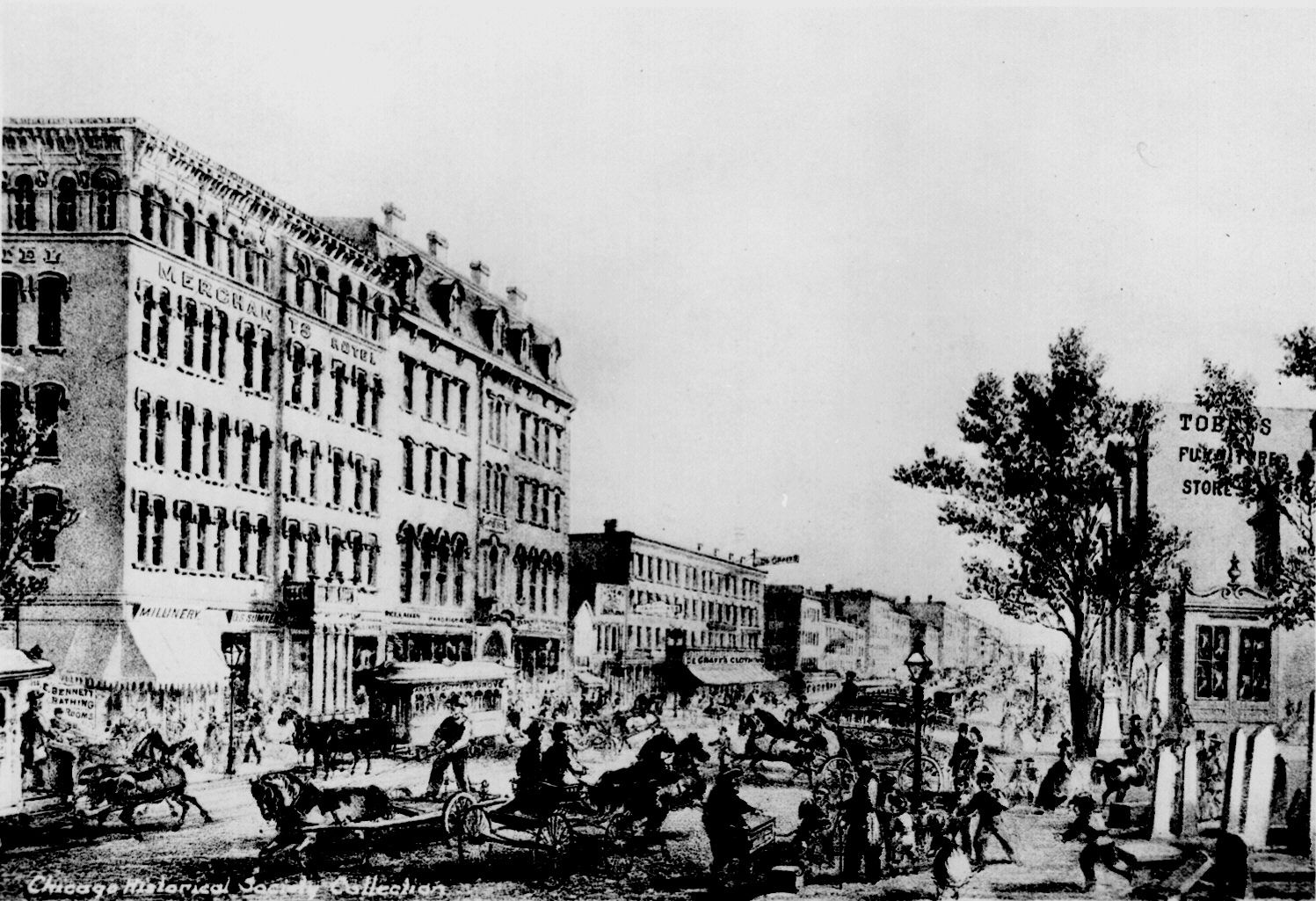 "Chicago, Looking North from State and Washington Streets." Lithograph from Pictorial History of Chicago (printed in Chicago, 1930). Merchants' Hotel on left, looking North from State and Washington Streets, before 1868